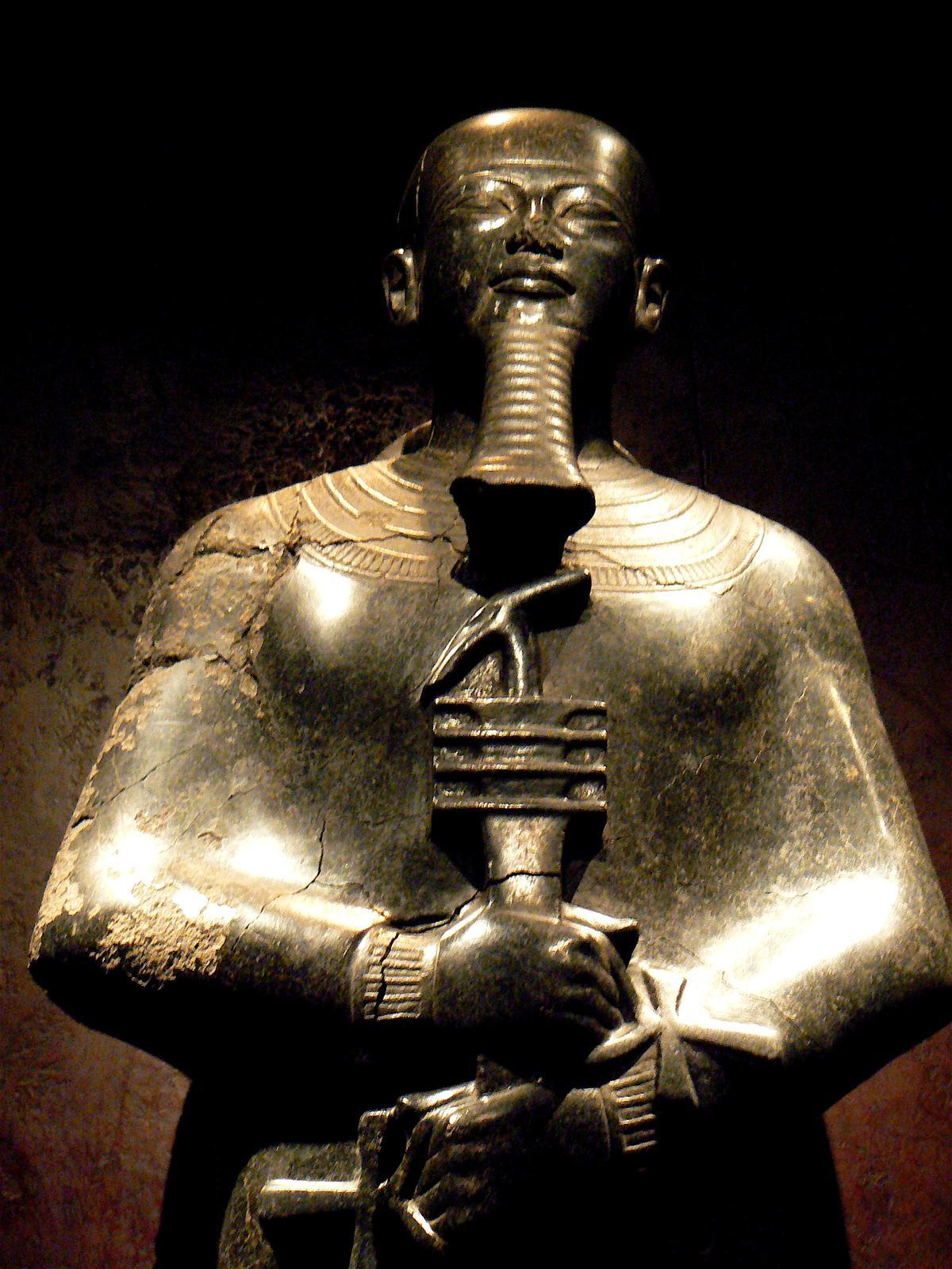 A well preserved statue of the Egyptian god Ptah in the Turin Museum, Italy